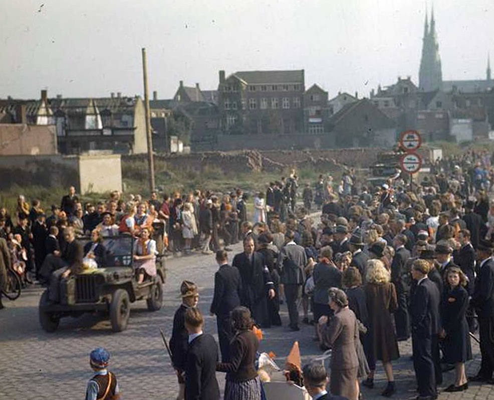 Celebrations in Eindhoven at their liberation, 19 September 1944